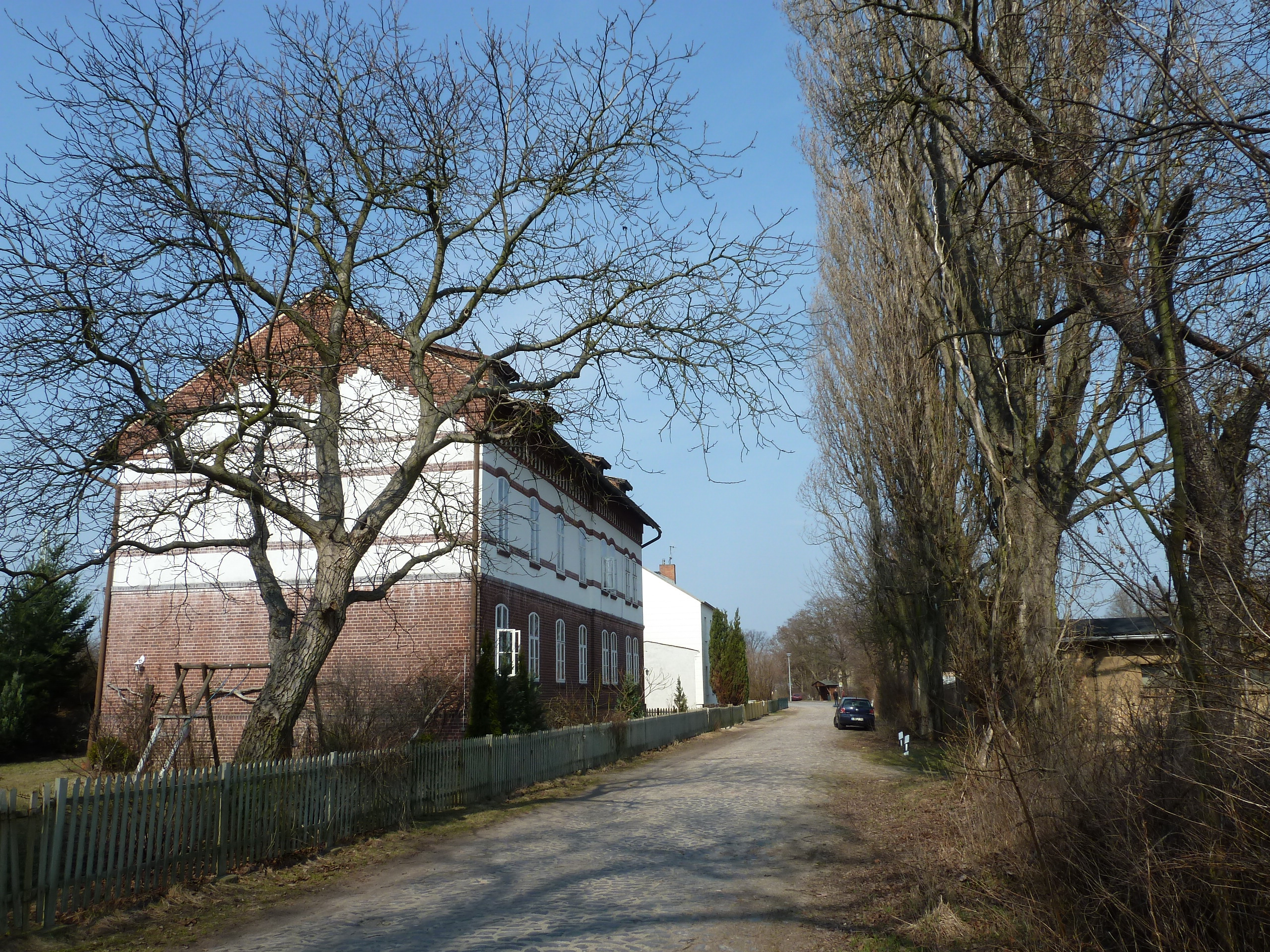 Train station Uckro (today Luckau-Uckro), living house for railway employees, cultural heritage, view from road